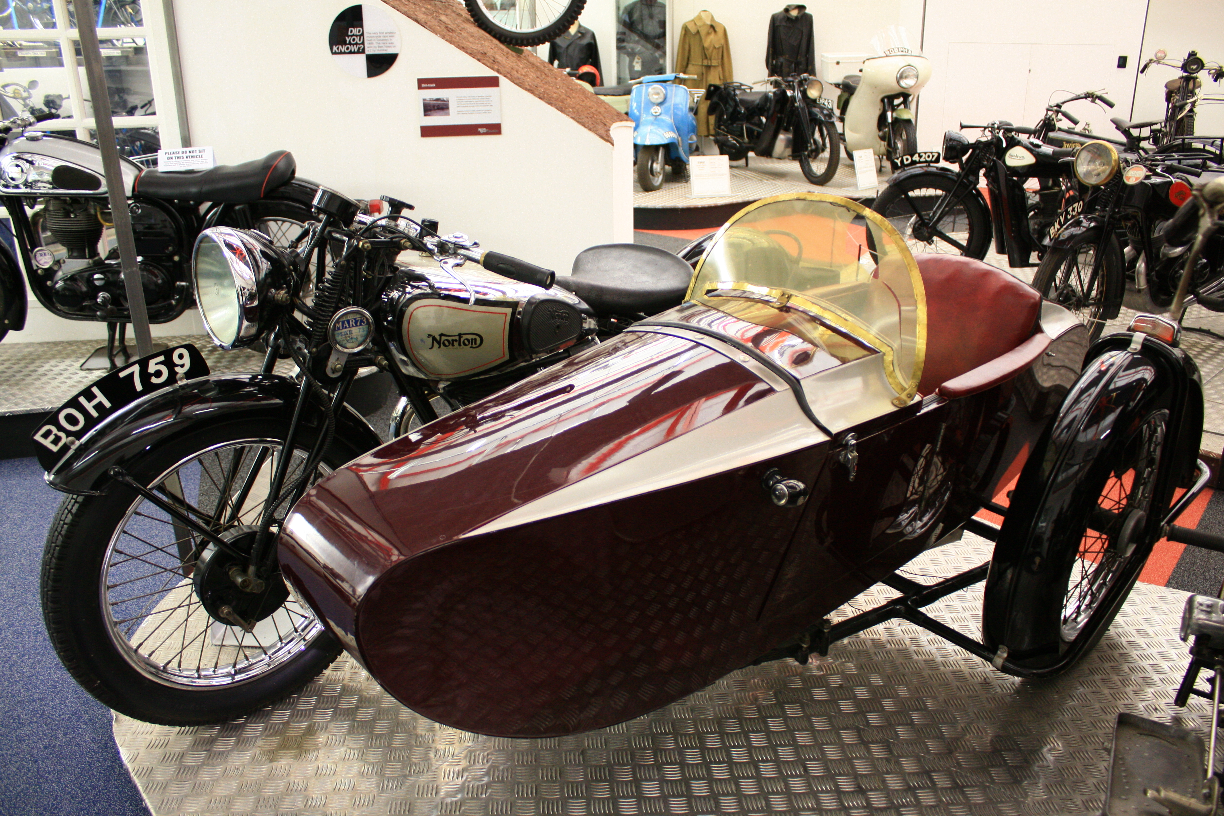 Made in: Birmingham (Braceridge street) Engine size: 490cc Engine format: Single cylinder overhead valve Price new: �75 "This motorcycle and sidecar was purchased in 1935 by Mr. C. Mason of Birmingham and was made by the Norton Company to its own specification. It is fitted with a TT racing engine and this is identified by the bore and stroke being stamped on the crankcase. Norton as a company enjoyed a string of TT and other continental successes over the years and also triumphed in countless reliability trials. Their list of successful riders include Ernest Searle, Percy Hunt and Miss Ruby Slade, who recieved a Premier Award at the Woodgreen Ladies' Open Reliability Trial in 1928. The Model 18 machine remained in Mr. Mason's possession until 1988 when he generously donated it to the museum. The attached sidecar was made by the Swallow Company of Blackpool who later became known around the world as Jaguar Cars, based in Coventry." Coventry Transport Museum, UK. 2009